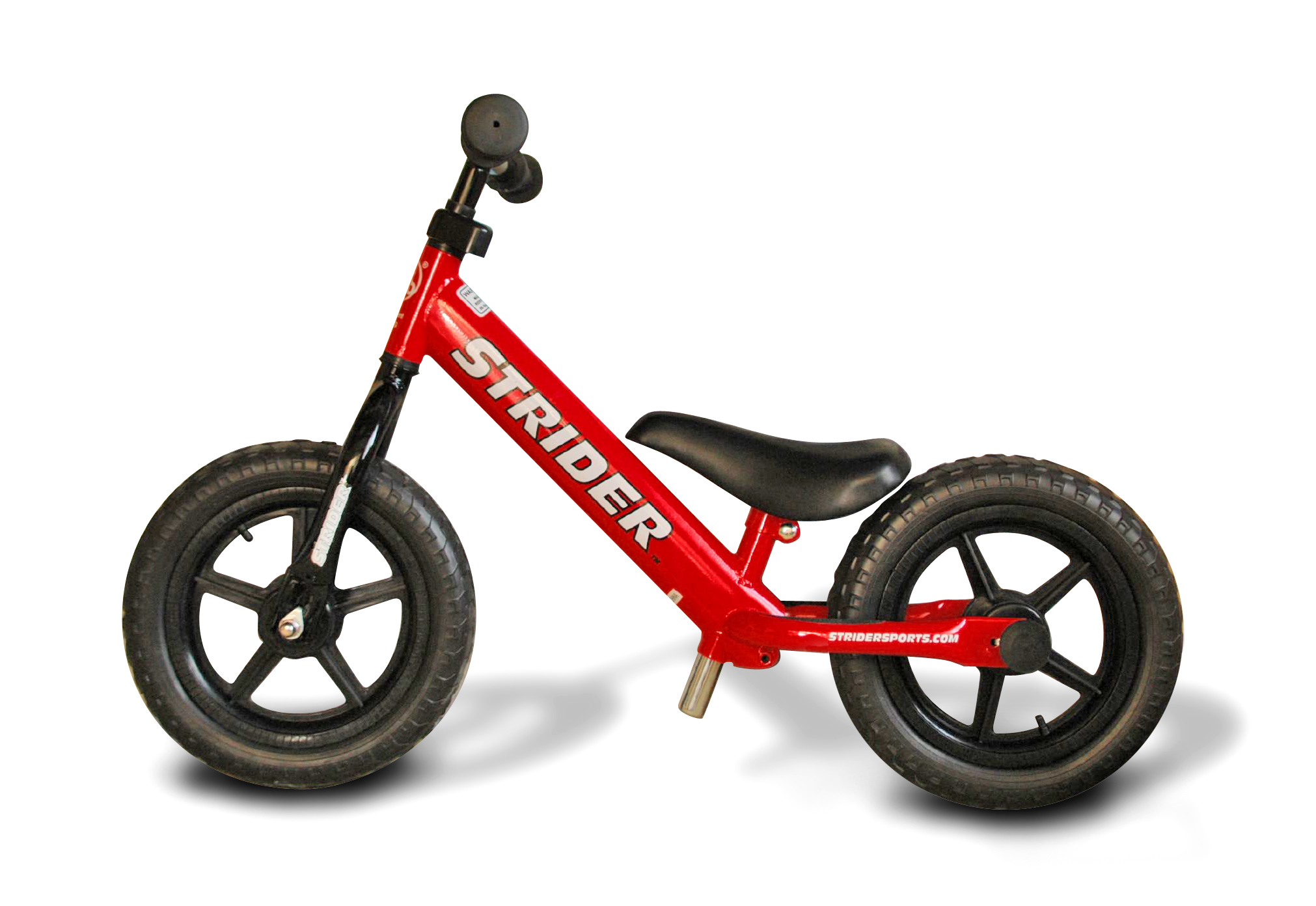 Strider balance bike